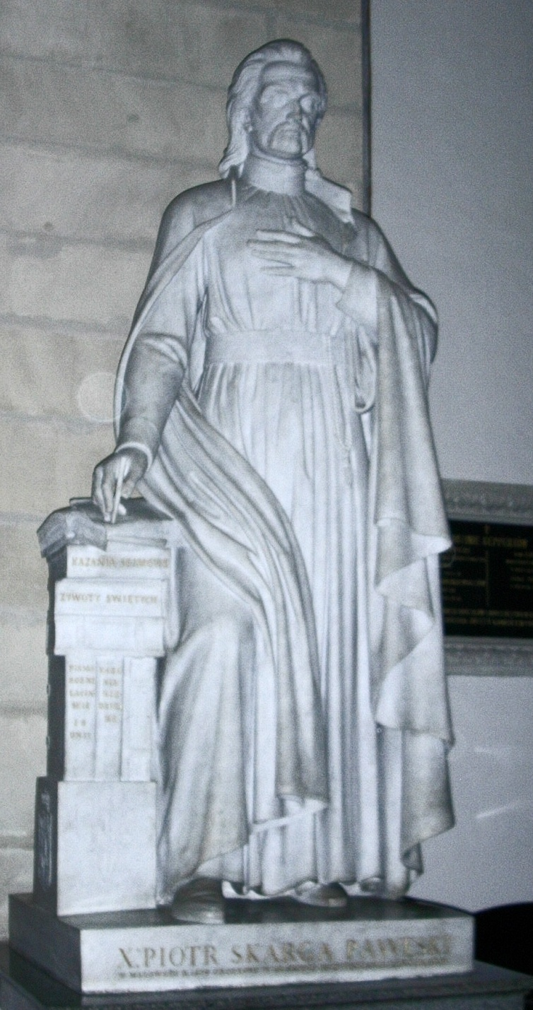 The statue of Piotr Skarga - Polish Jesuit, preacher, writer, polemicist, and leading figure of the Counter-reformation in the Polish-Lithuanian Commonwealth - in the church in Kraków (Cracow)